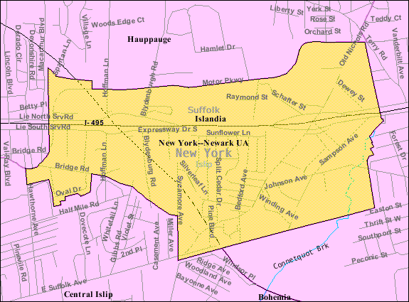 U.S. Census 2000 reference map for Islandia